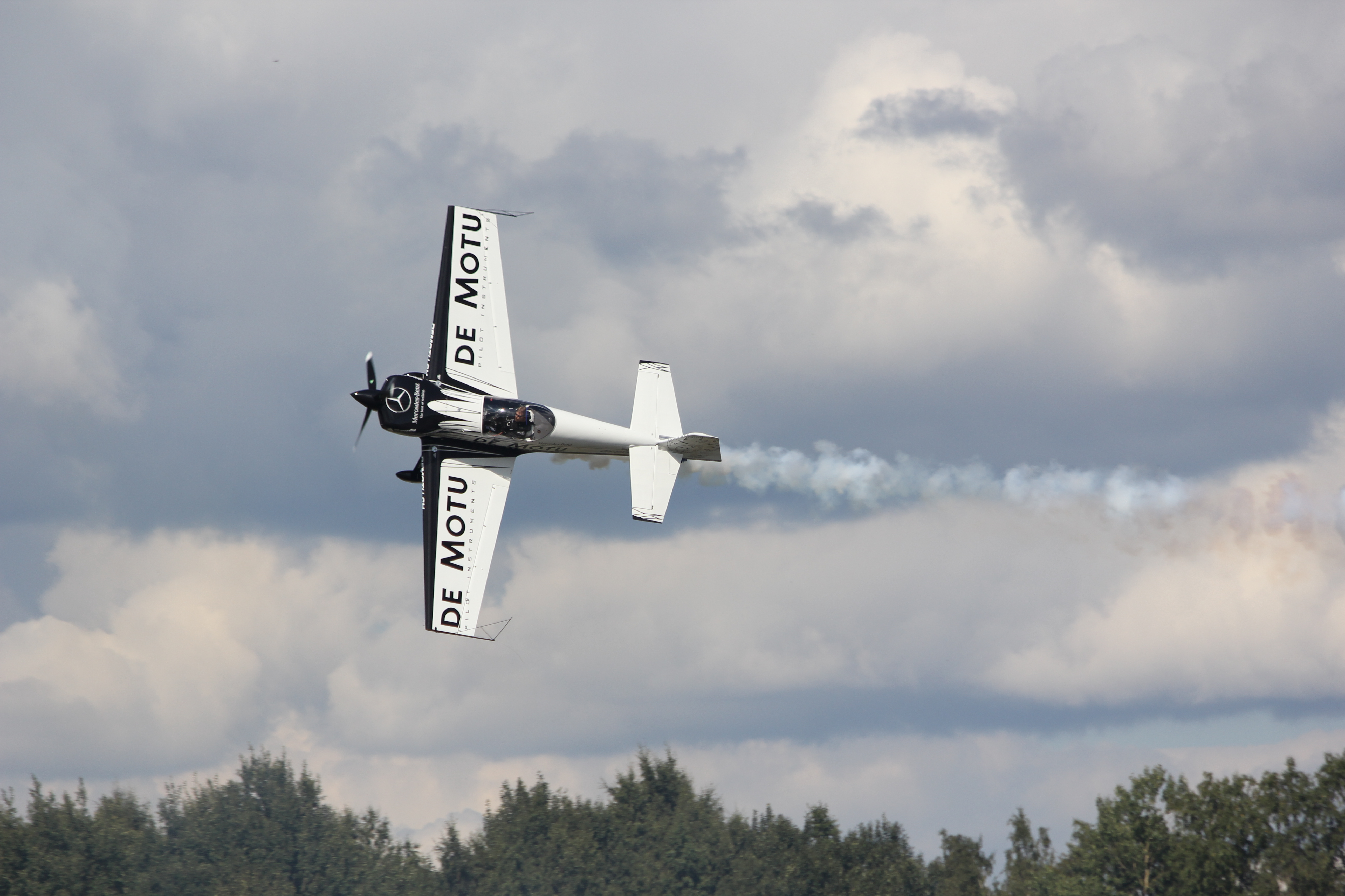 Sami Kontio Challenge air show pylon race second round. Sami Kontio with CAP 232 aircraft.